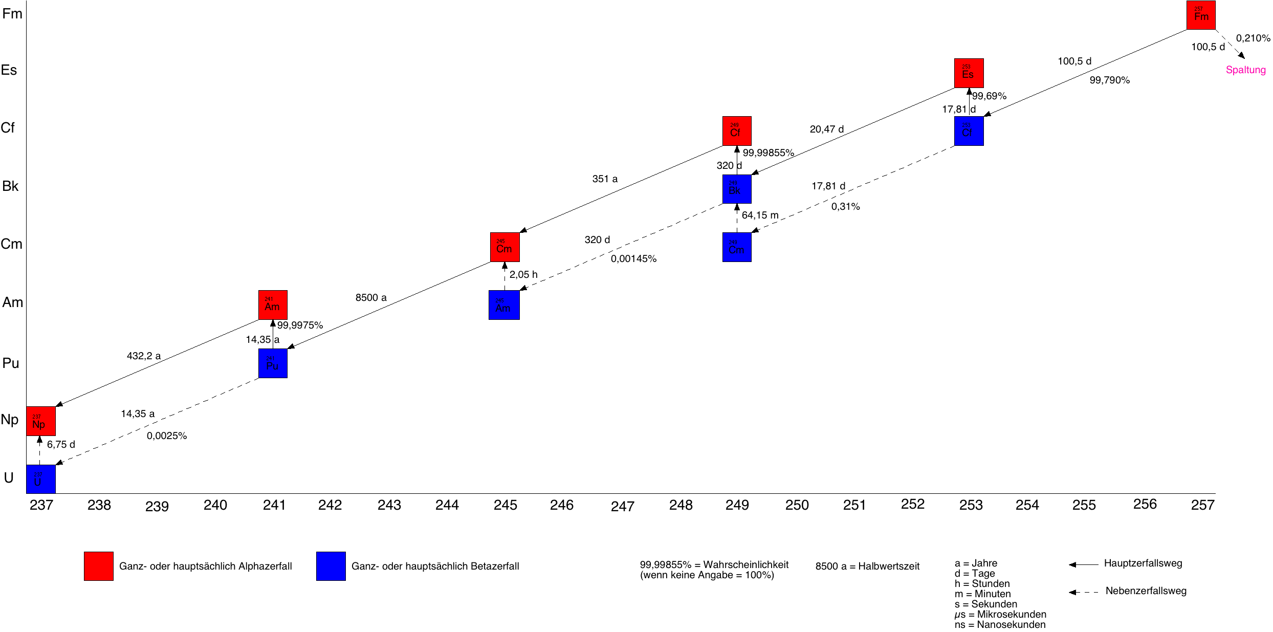 The decay of Fermium-257 to the Neptunium series (Neptunium-237).